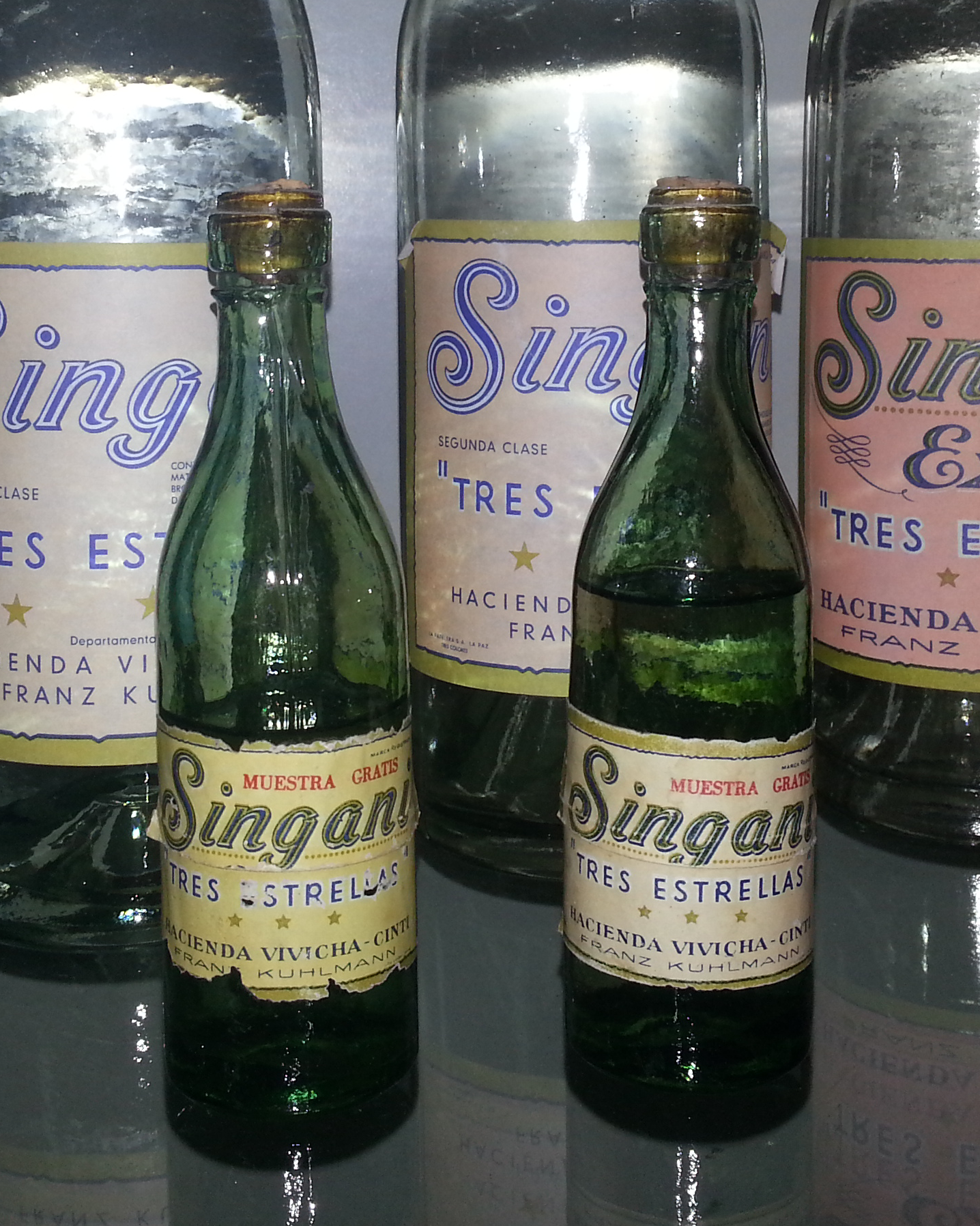 Singani bottles and samples from 1930. Photo provided by Franz Molina of Bodegas Kuhlmann & Cia., Ltd. on January 3, 2013, for use in Wikipedia article. Used with permission. DGFritz (talk) 22:53, 3 January 2013 (UTC)